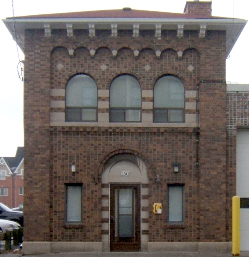 Italianate Fire Station on 8th Street in New Toronto